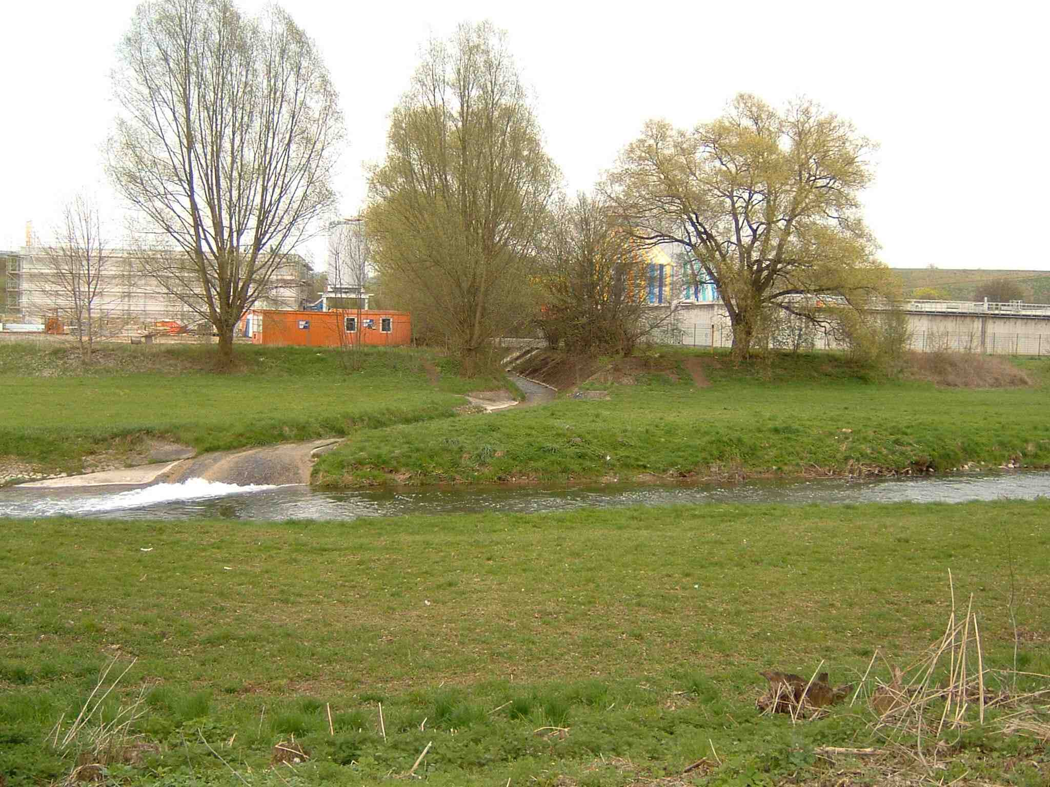 Lutter Creek and Leine River in Göttingen, Germany